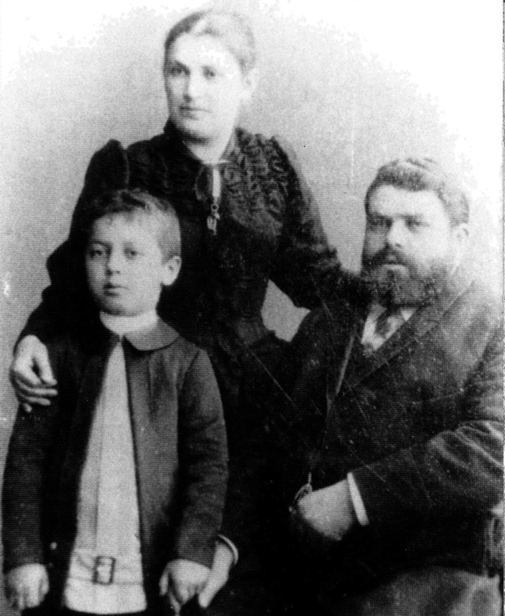 Jokūbas Dora Chaimas Frenkeliai, 1893 in Šiauliai